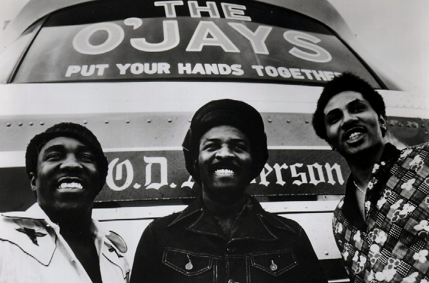 Photo of the O'Jays in front of their custom touring bus in 1974. From left-Eddie Levert, Walter Williams and William Powell.